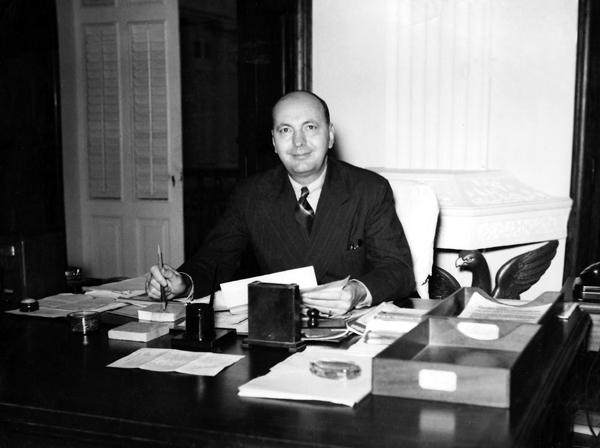 José Miguel Gallardo as Governor or Commissioner of Education of Puerto Rico